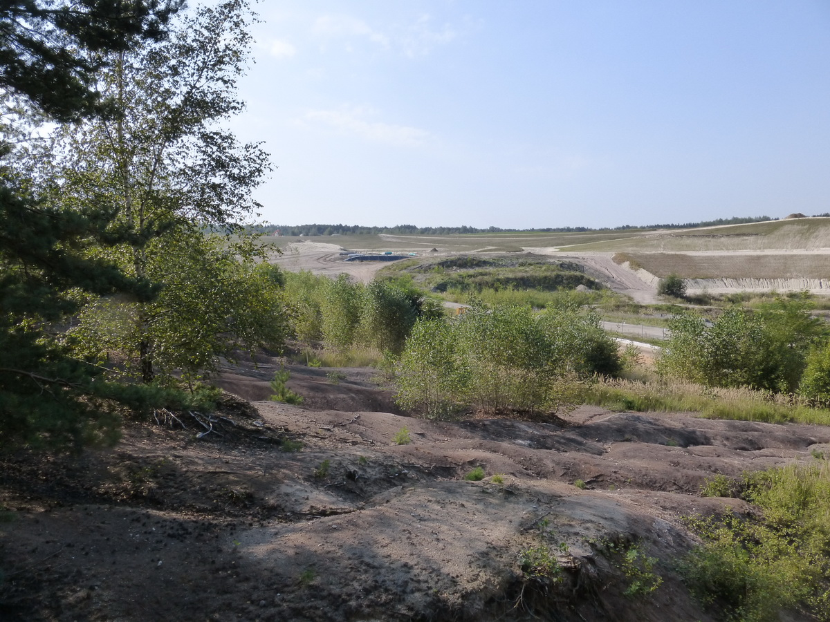 Lignite seams near Wackersdorf, Bavaria, Germany